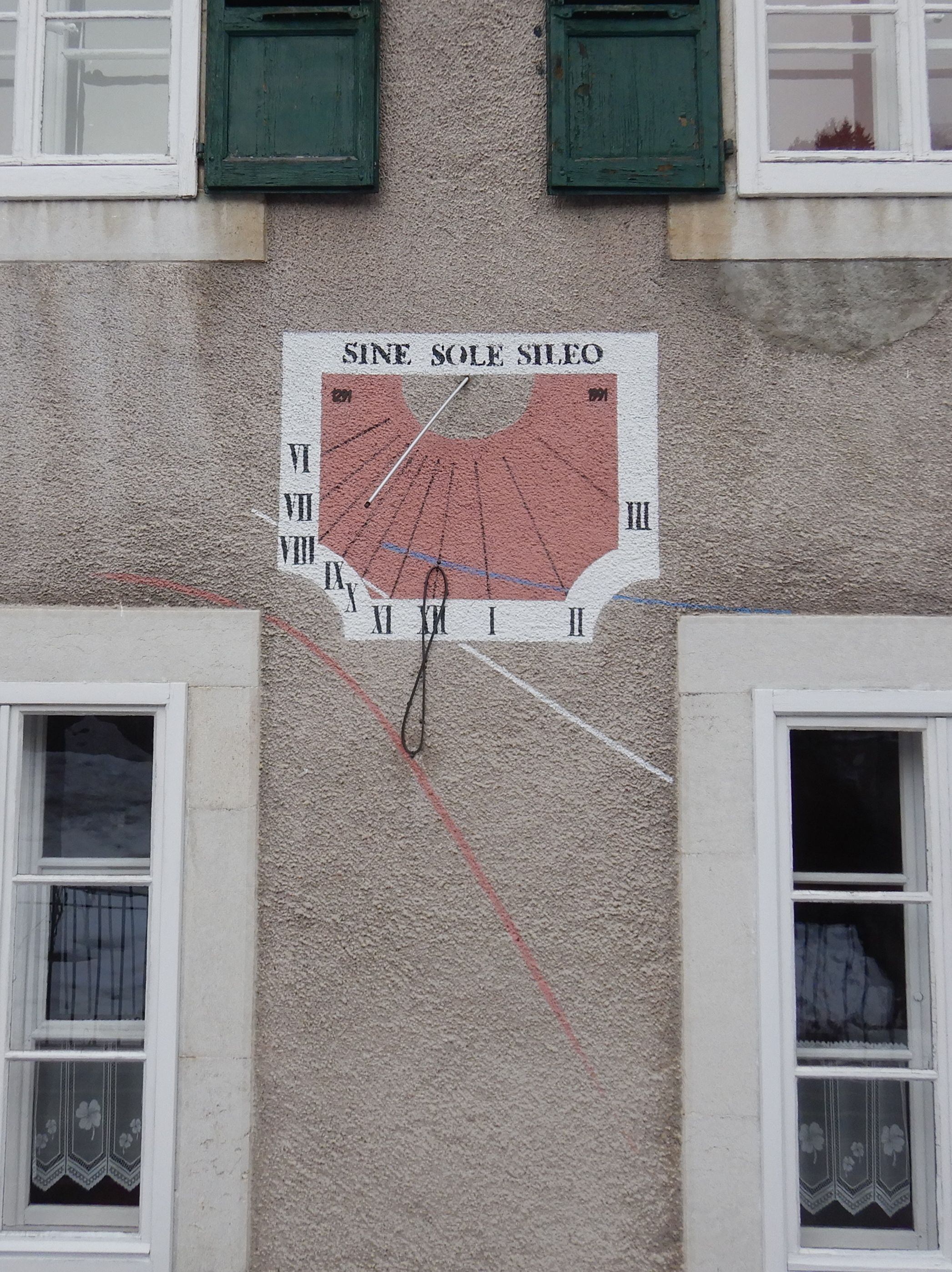 Sundial at Rue de la Gare 7, Le Brassus, Switzerland.